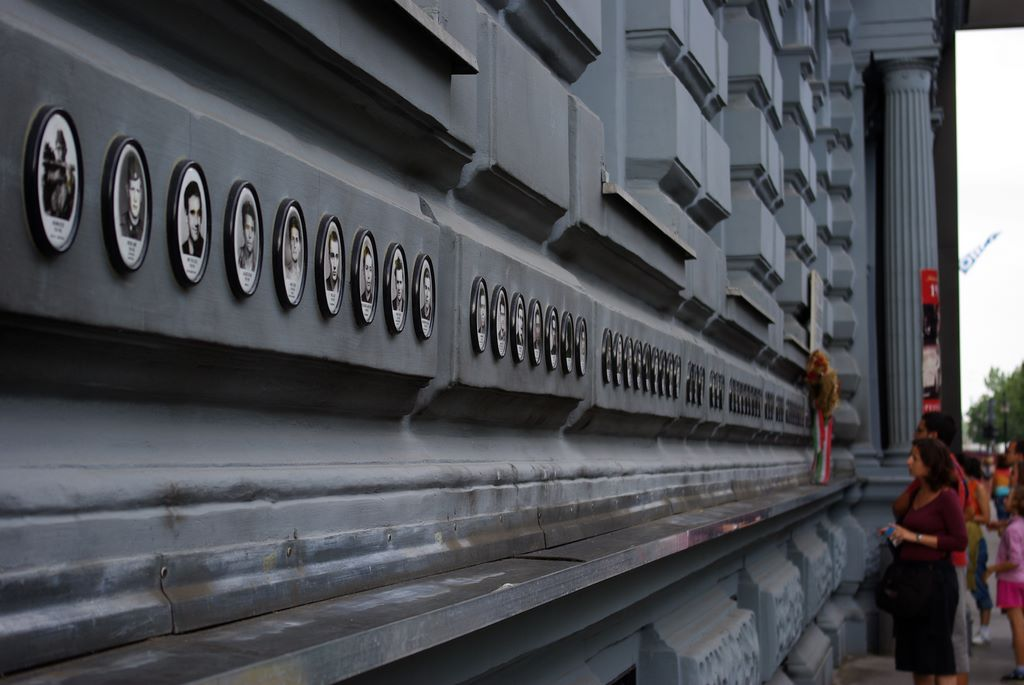 House of Terror in Budapest